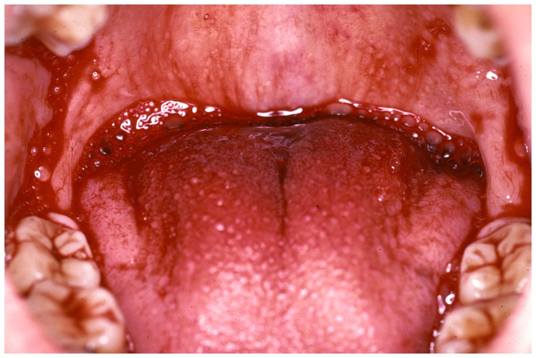 In Asia, coagulation defects and spontaneous bleeding are characteristic of bites by viperid snakes and are caused by procoagulant and haemorrhagic toxins in the snake venom. Image credit: D. A. Warrell.